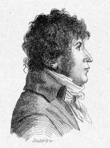 German-born French composer Henri-Joseph Rigel (1741-1799) by André Dutertre (1753-1842).